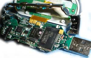 Author : Wladston Viana